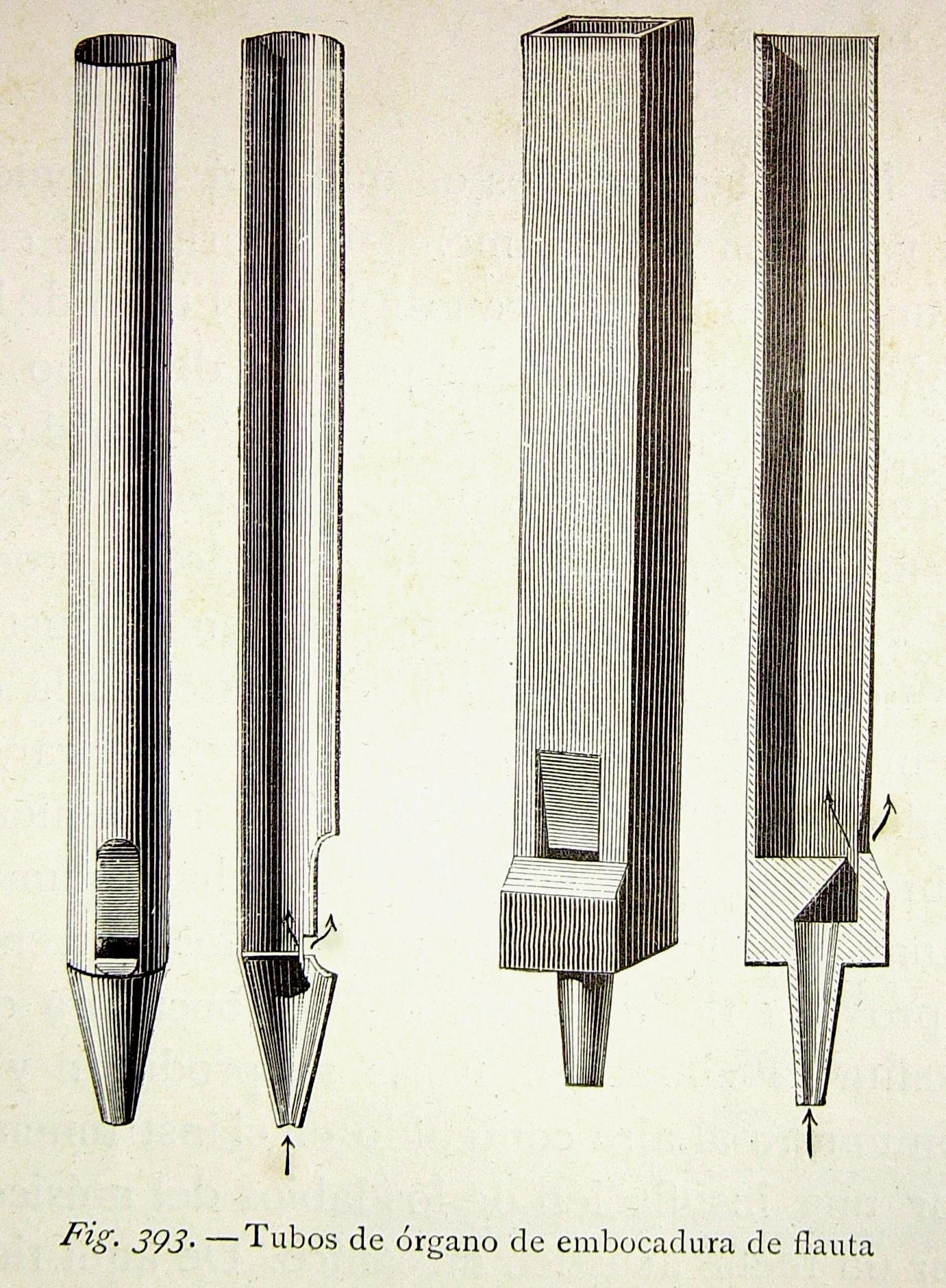 Organ Pipes' embouchure (fipple) of flute. Ilustraciones pertenecientes al libro : El mundo físico : gravedad, gravitación, luz, calor, electricidad, magnetismo, etc. / A. Guillemin. - Barcelona Montaner y Simón, 1882